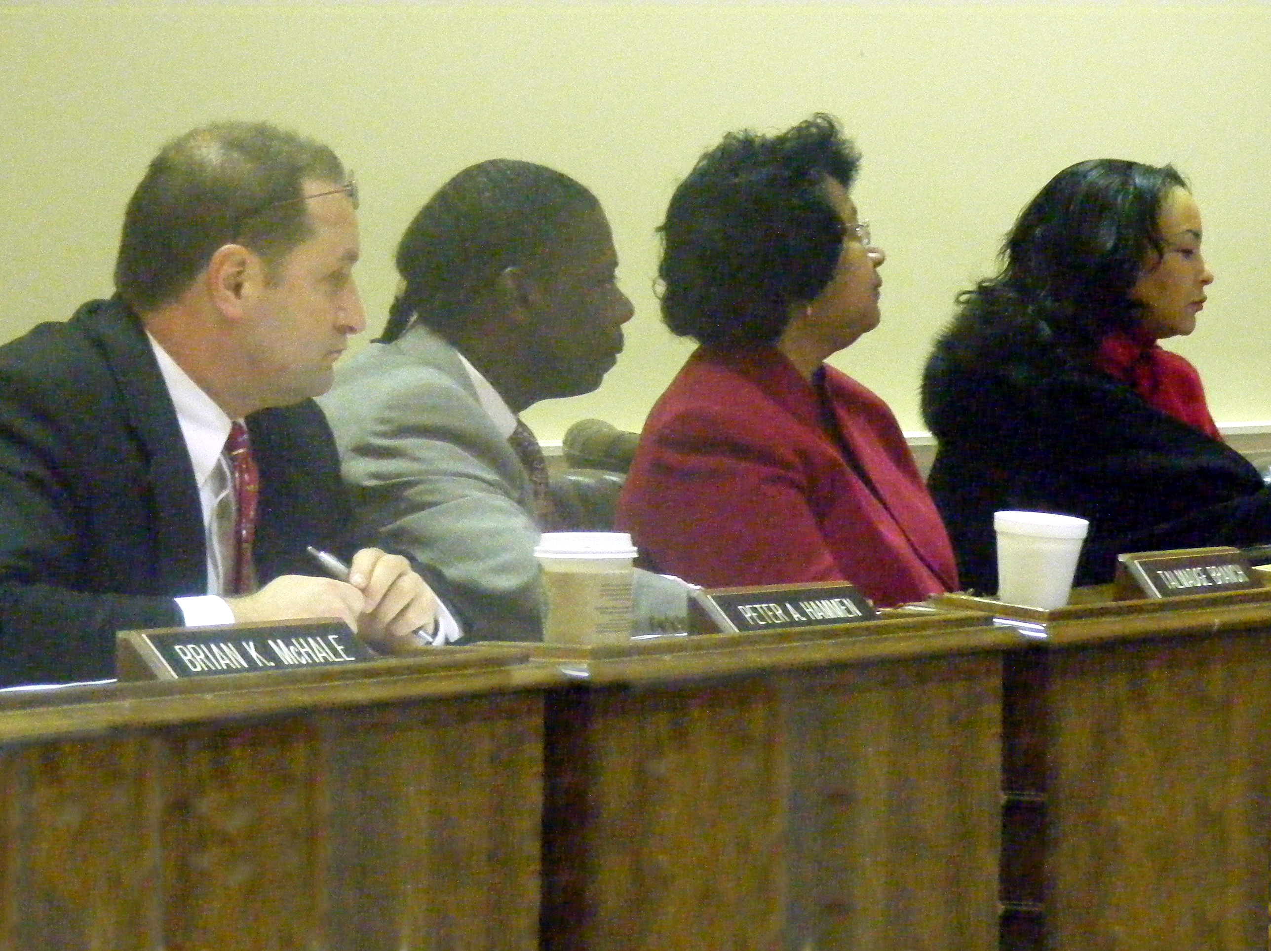 some members of the baltimore city delegation